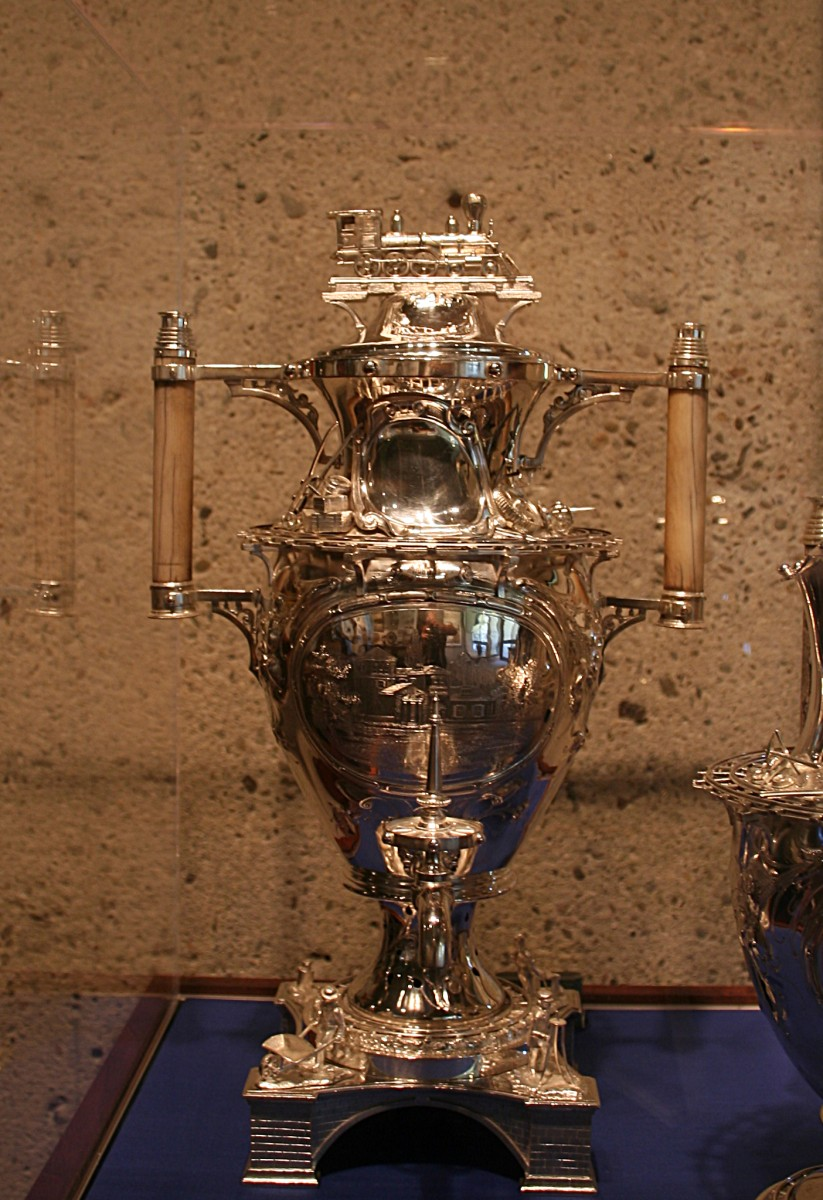 Silver piece by at the Oakland Museum of California.